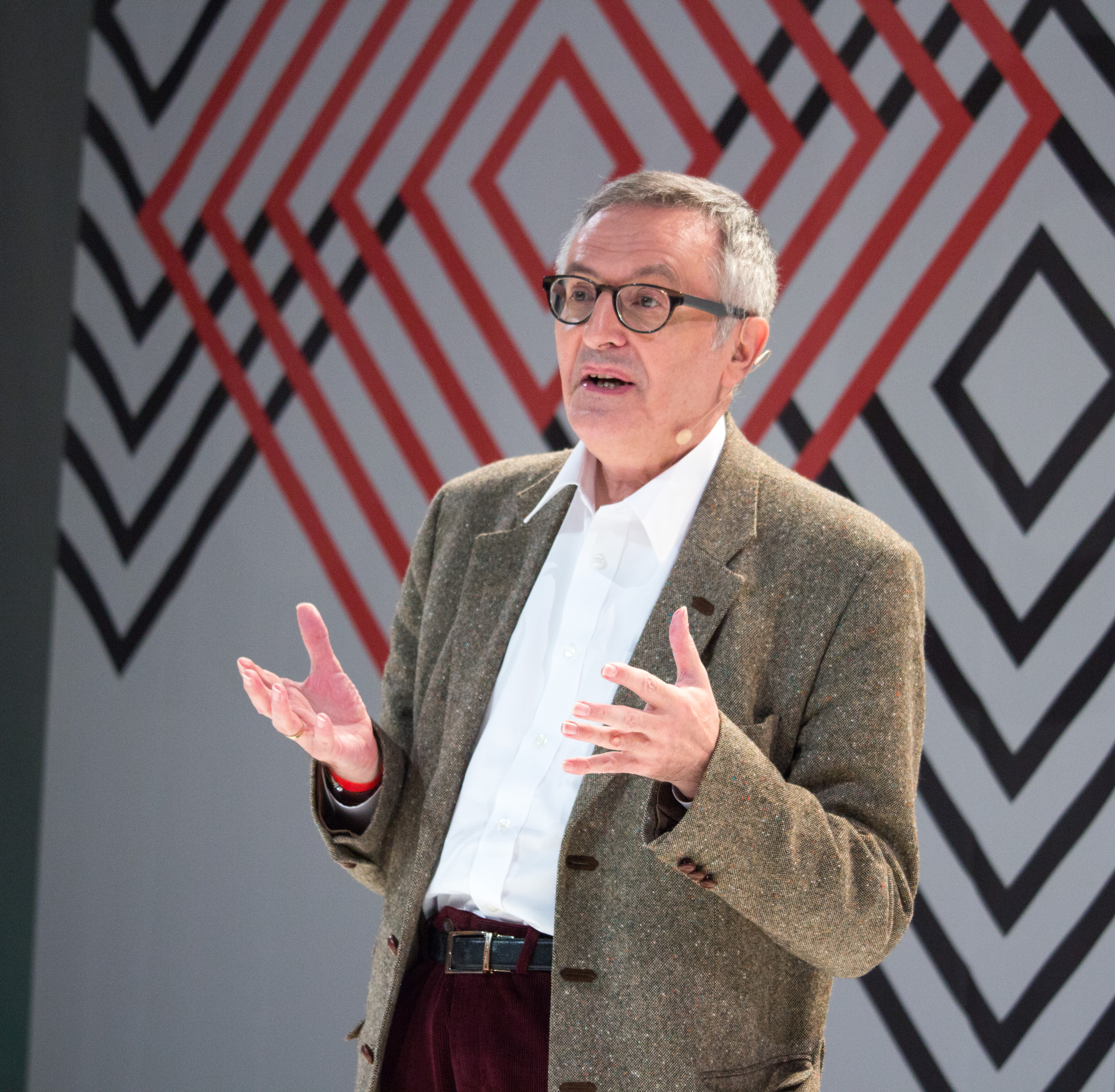 John Gray at Brainwash Festivaal 2015